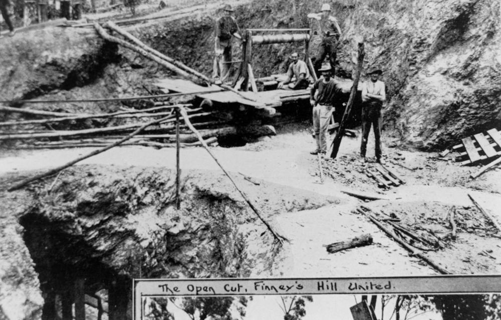 Finney's Hill United Silver Mine at Indooroopilly, Brisbane, 1921